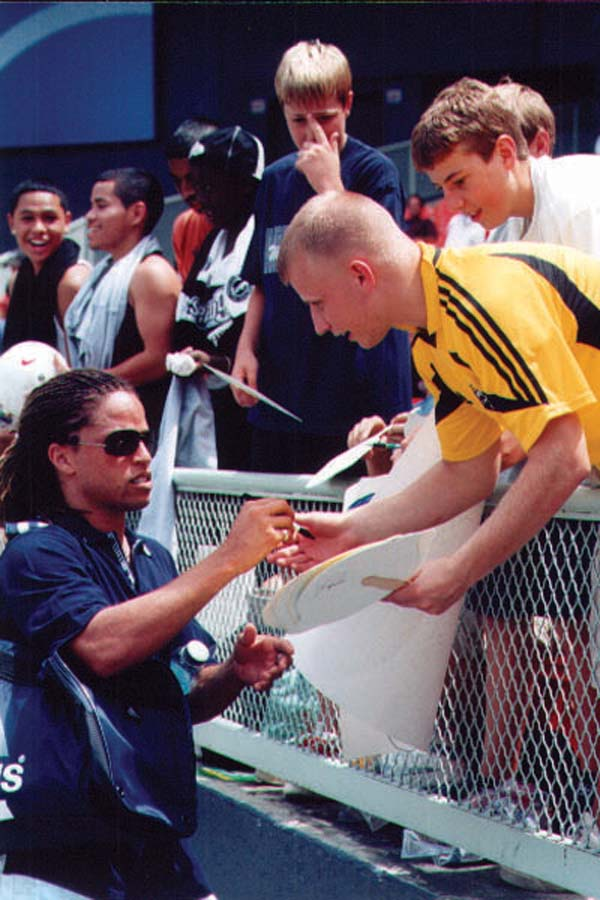 Original description: Cpl. Adam Wentzell of Marine Corps HQ Manpower Reserve Affairs, in Washington, gets his souvenir fan autographed by an MLS player. Photo by Samantha L. Quigley.